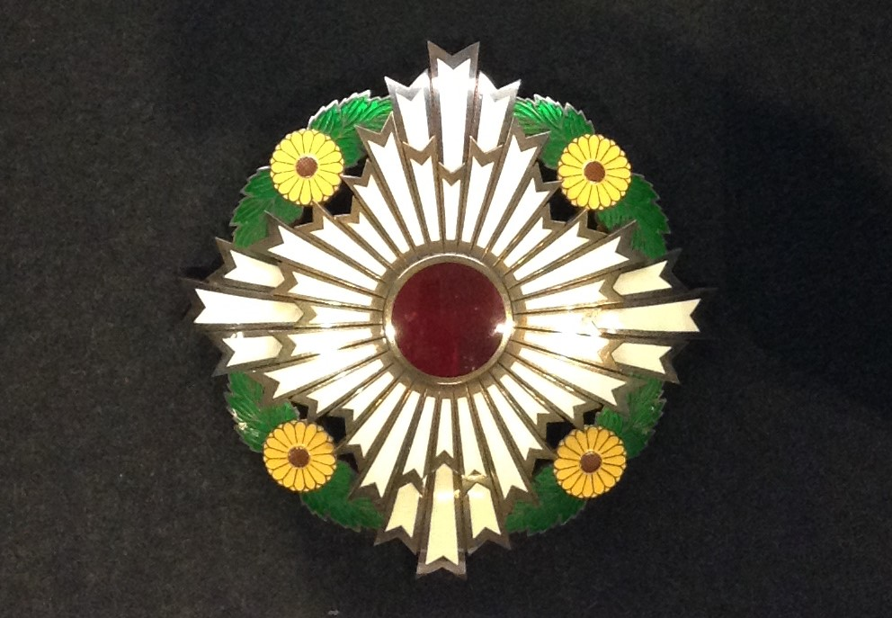 Grand Cordon of the Supreme Order of the Chrysanthemum